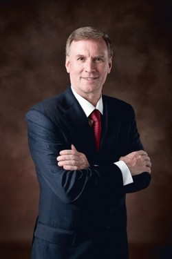 This is a photo of Dr. Charles "Chuck" Baldwin, the 2008 Constitution Party (a United States third party) Presidential candidate.